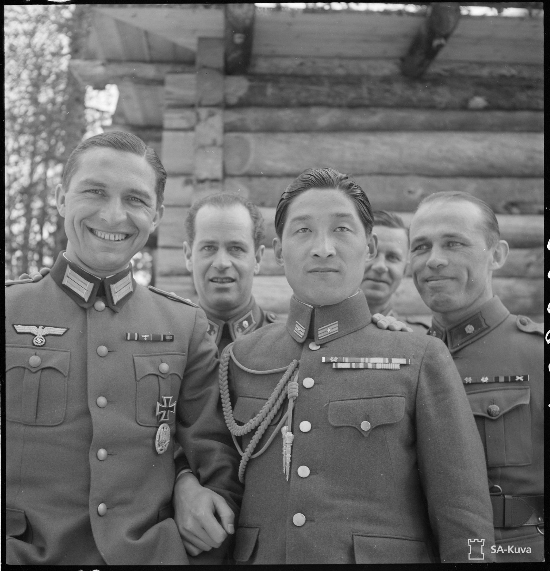 The visit of German, Italian, Japanese, Hungarian and Romanian military delegates in the Uhtua sector of the front. Lieutenant Colonel Ravila as the guide for the field sentry positions on the road to Röhö. Uhtua sector